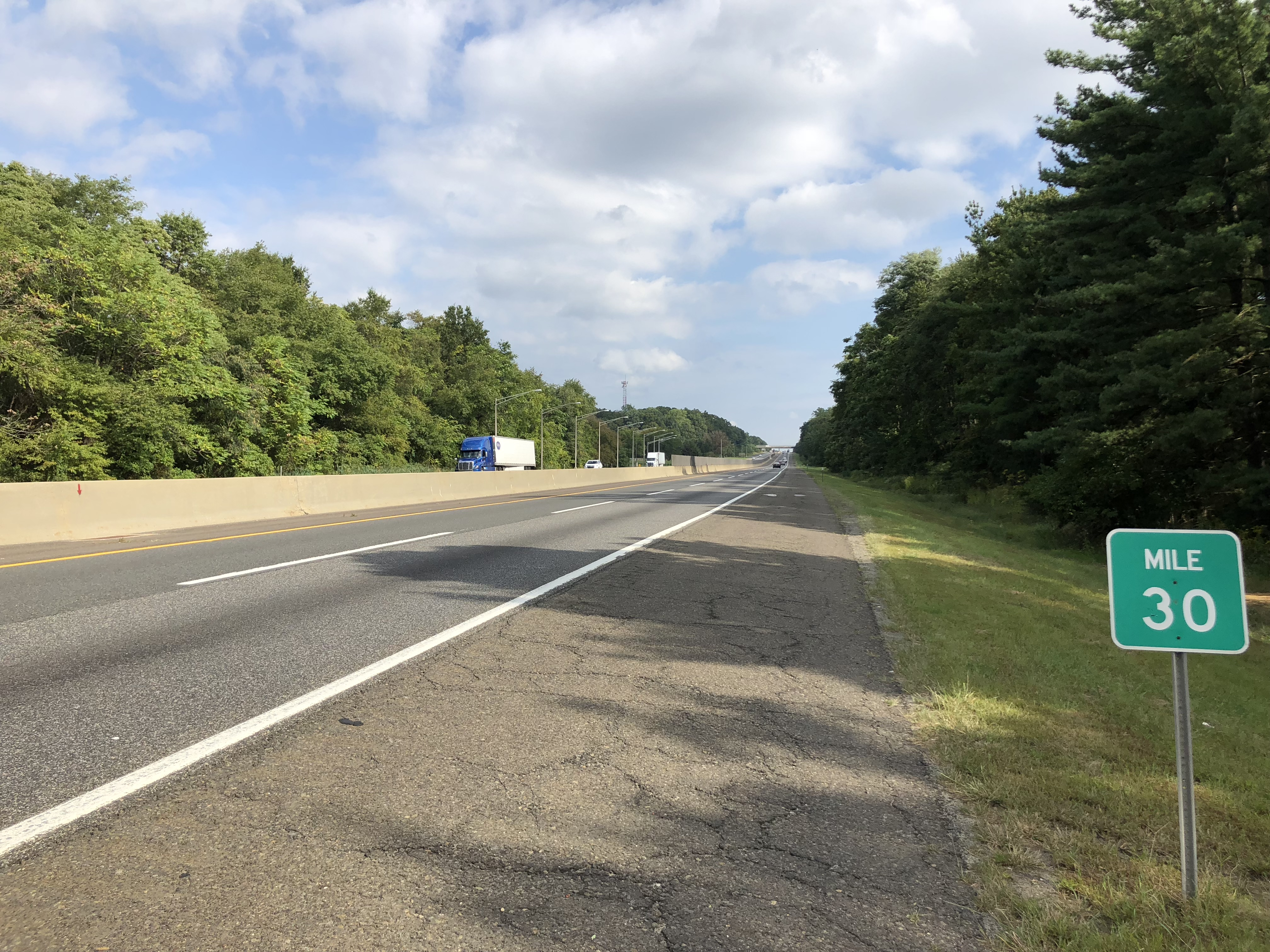 View north along New Jersey State Route 700 (New Jersey Turnpike) between Exit 3 and Exit 4 in Cherry Hill Township, Camden County, New Jersey